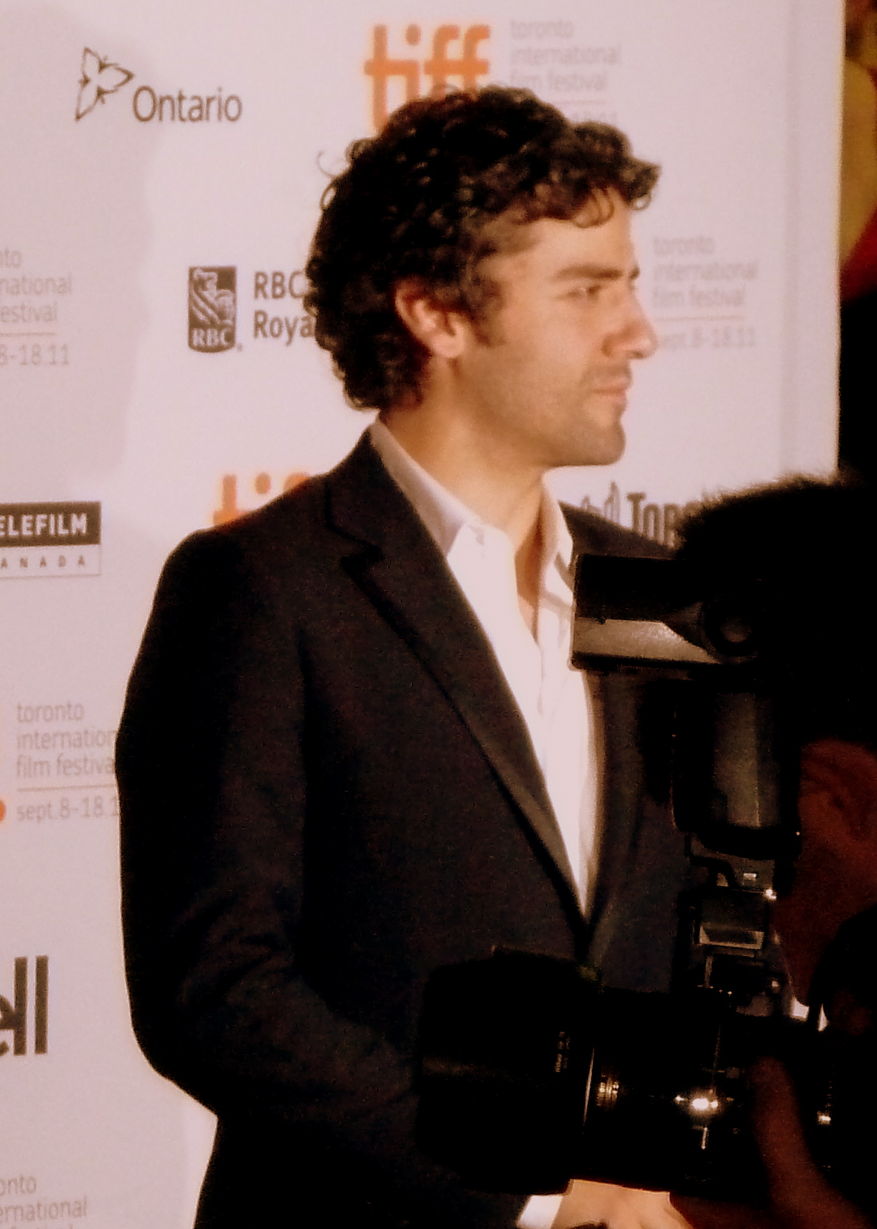 Oscar Isaac at the premiere of Ten Year, Toronto Film Festival 2011